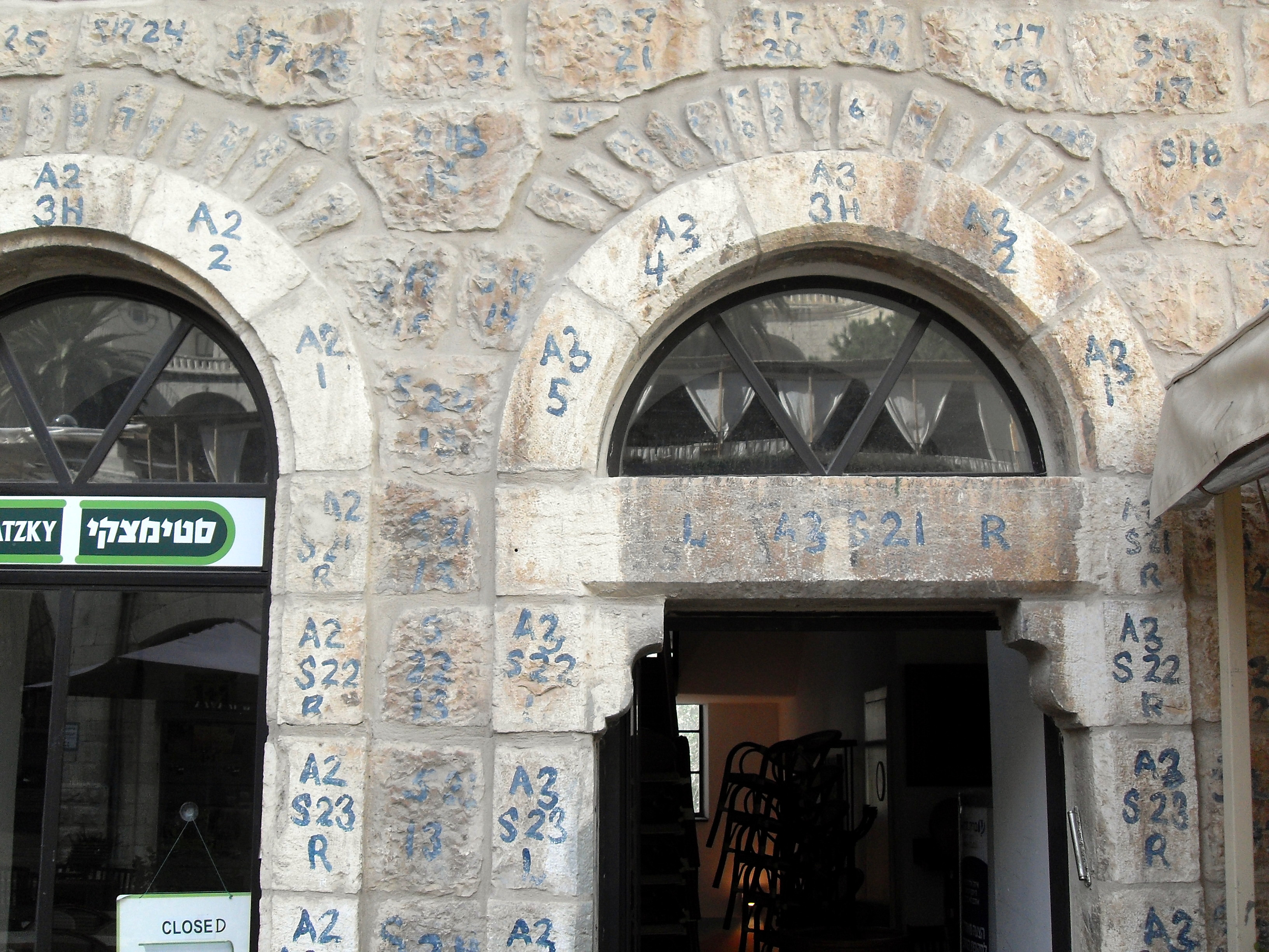 Jerusalem Mamilla Stern house - Steimatzky (סטימצקי) is Israel 's largest book store network